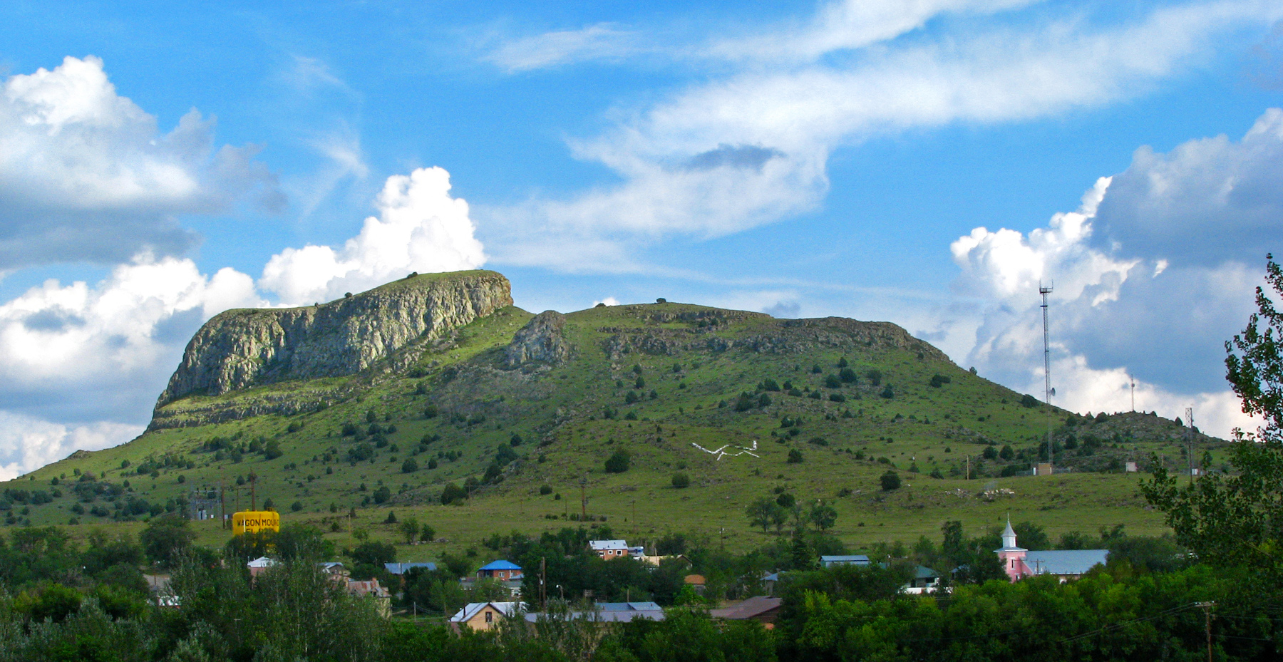 A photograph of the Village of Wagon Mound in Wagon Mound, New Mexico.